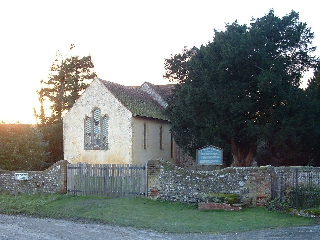 North Stoke Church, West Sussex. East view of North Stoke Church at the end of a narrow road from Amberley. Sun setting over the South Downs.